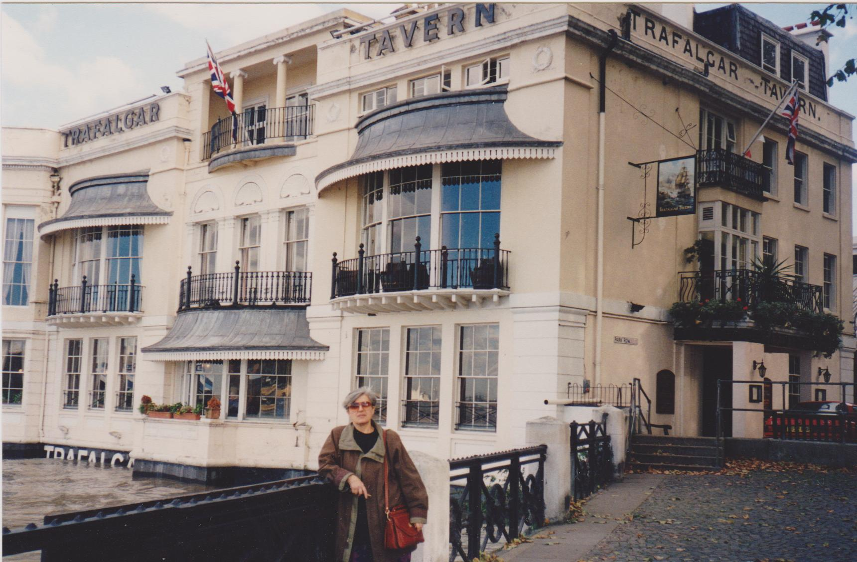 Trafalgar Tavern, Greenwich, England